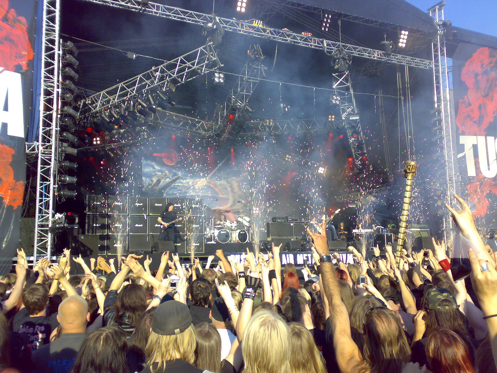 Finnish metal band Stratovarius starting its performance at Tuska Open Air Metal Festival 2007.